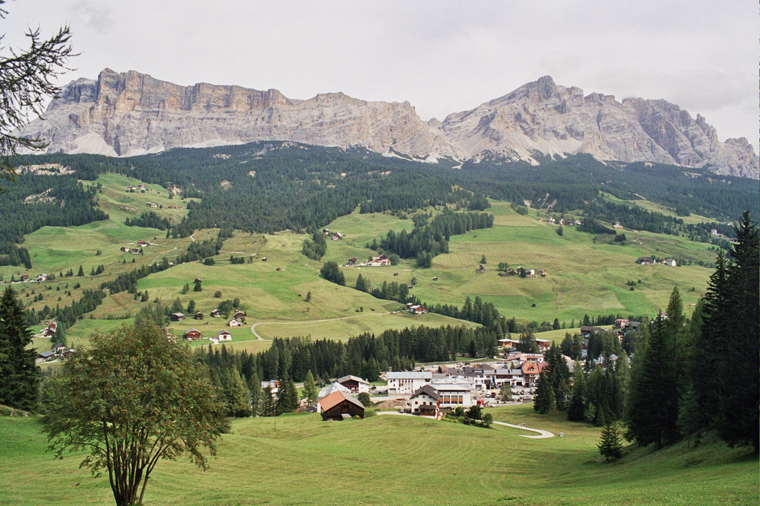 La Ila in Badia in South Tyrol